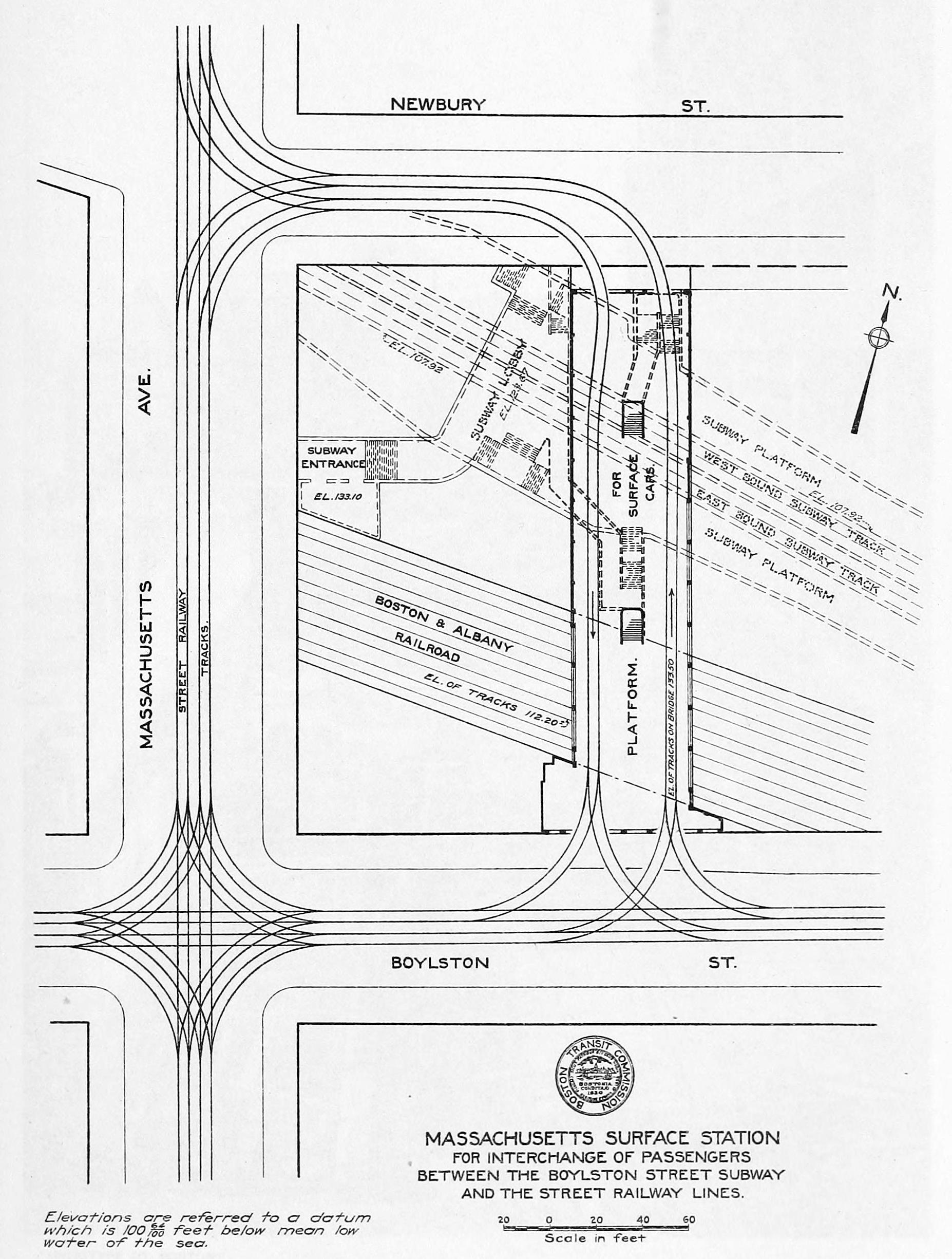 1918 plan for the surface transfer station at Massachusetts station